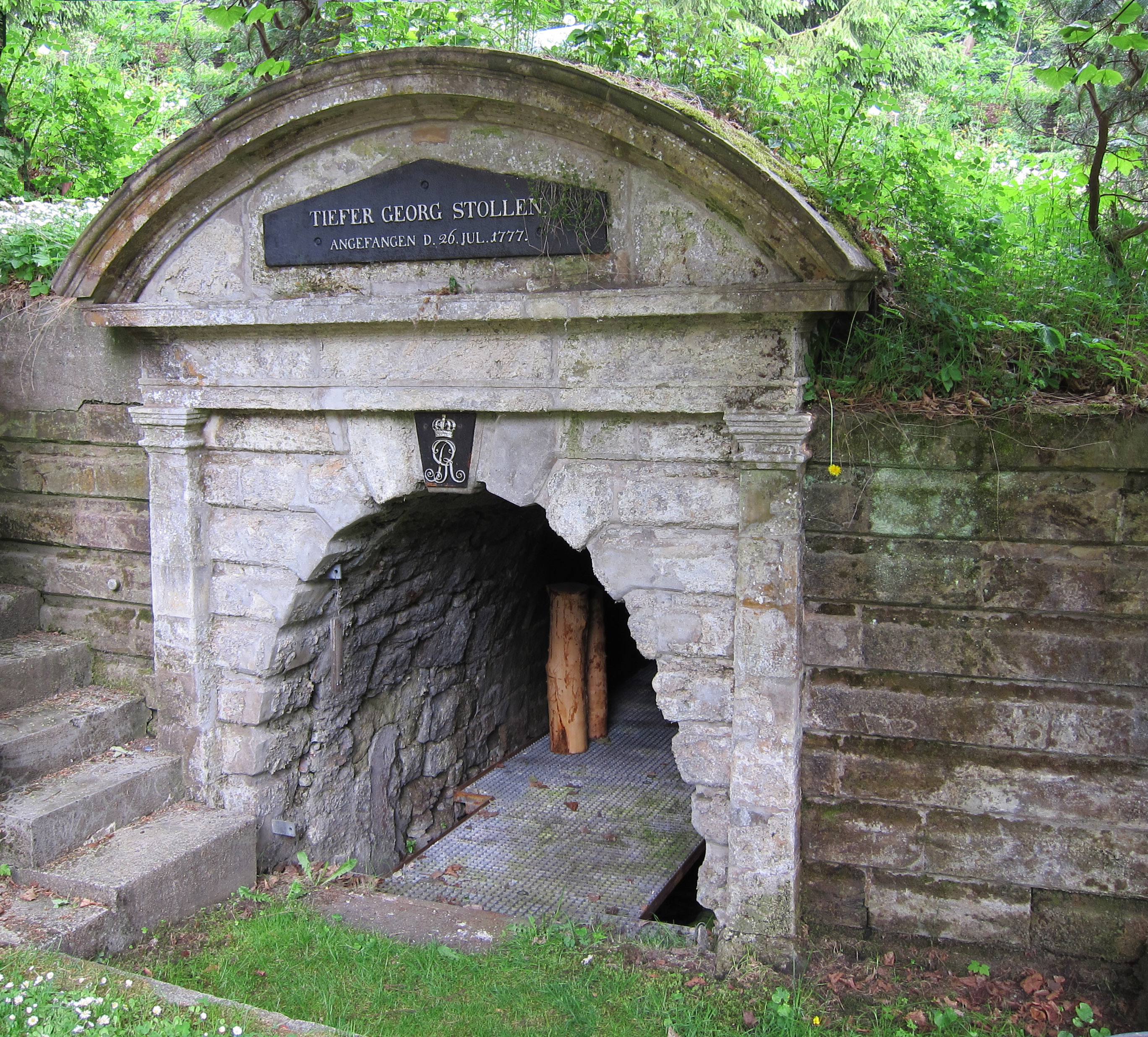 portal of mine draining tunnel 'Tiefe Georg' in Bad Grund, Lower Saxony, Germany